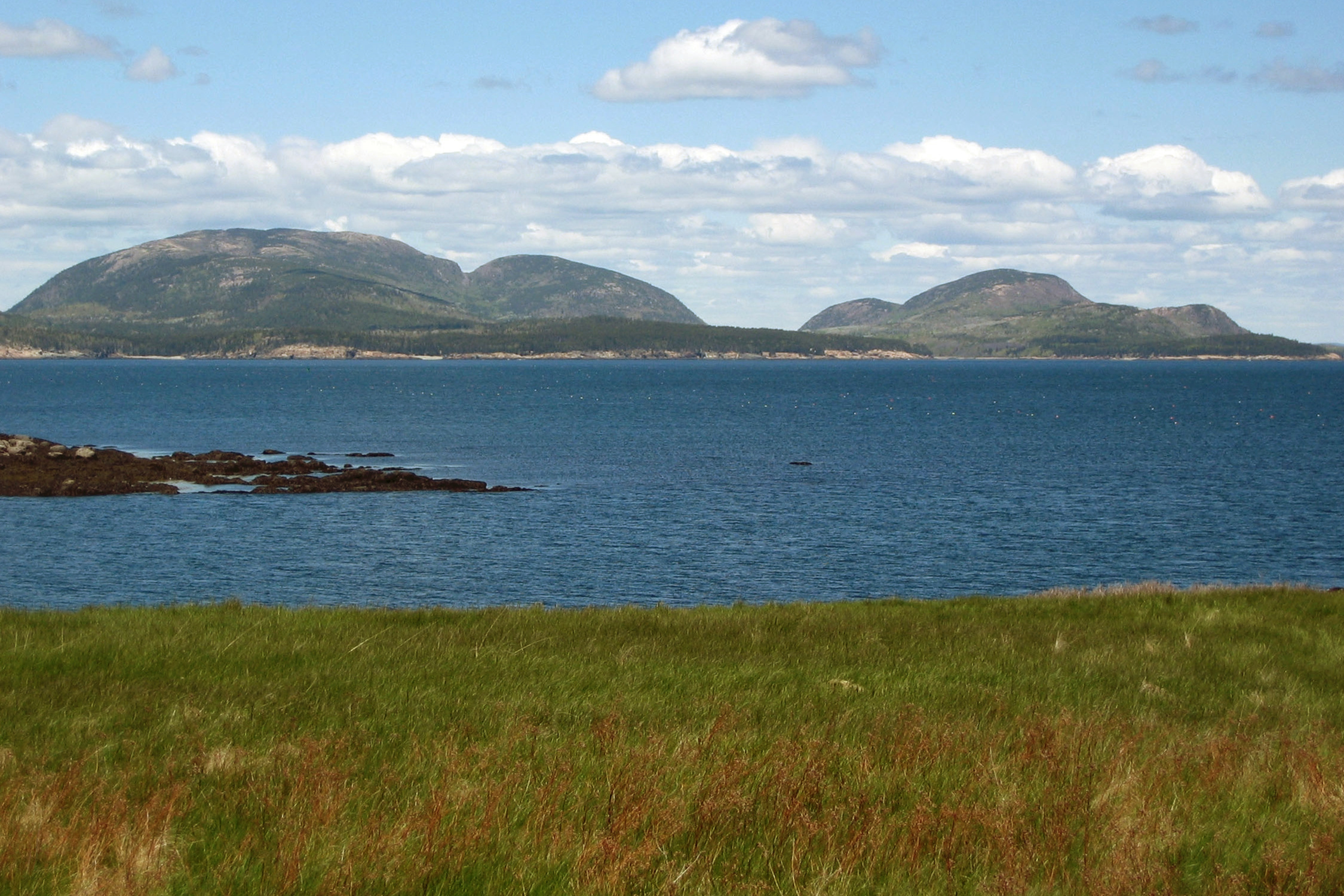 Baker Island toward Mount Desert Island, Acadia National Park, Maine, United States.